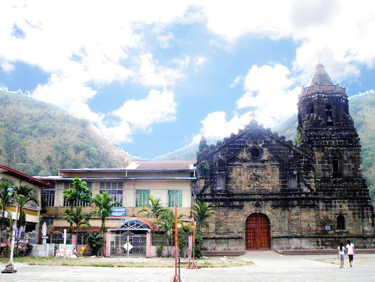 Church in Paete built during the Spanish Colonial Era.